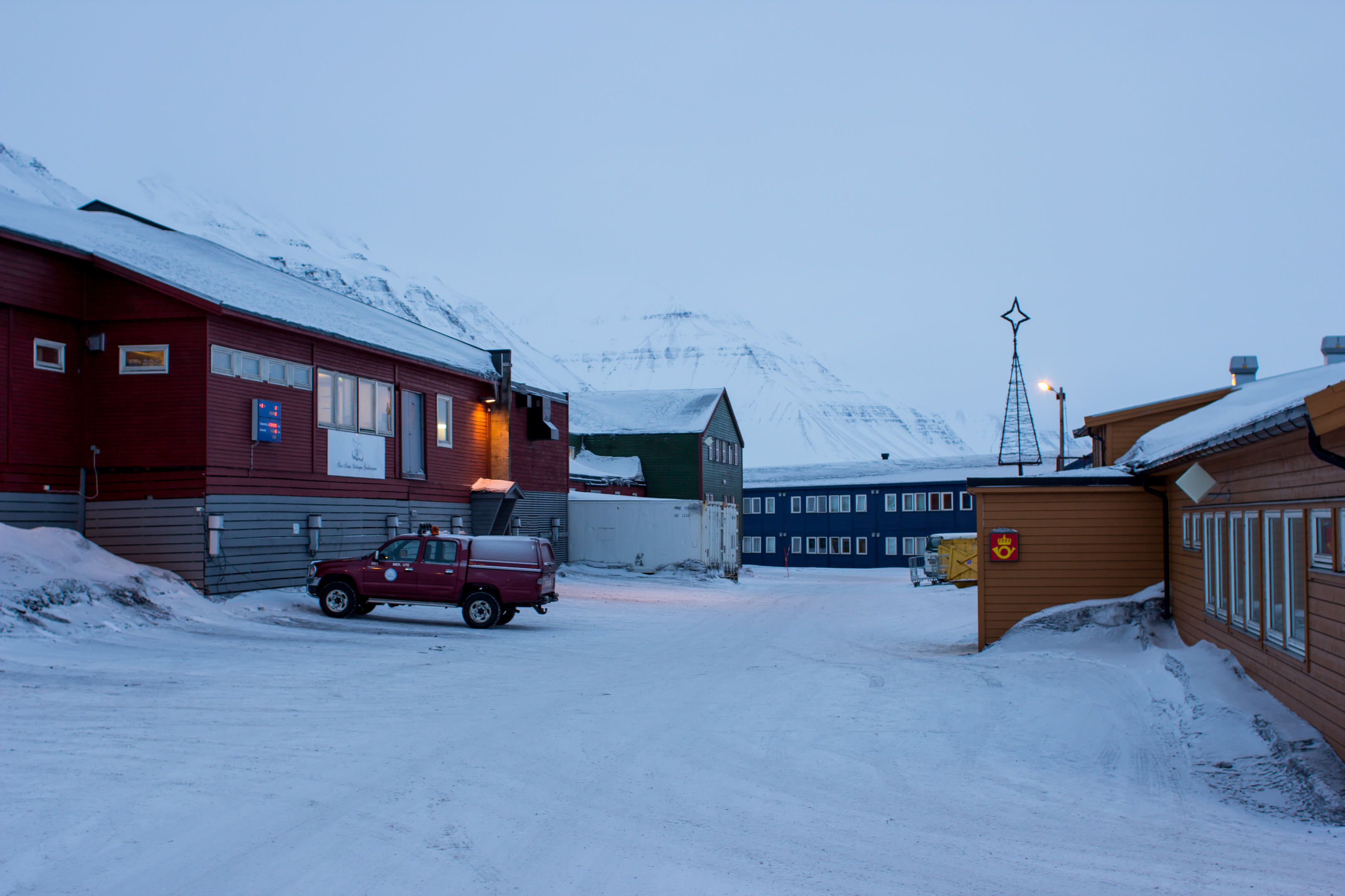 The main street of the mining community Svea in Spitsbergen, Svalbard. The postal office and common hall to the right in the picture; the administrative building to the left. The worker's apartments are straight ahead.